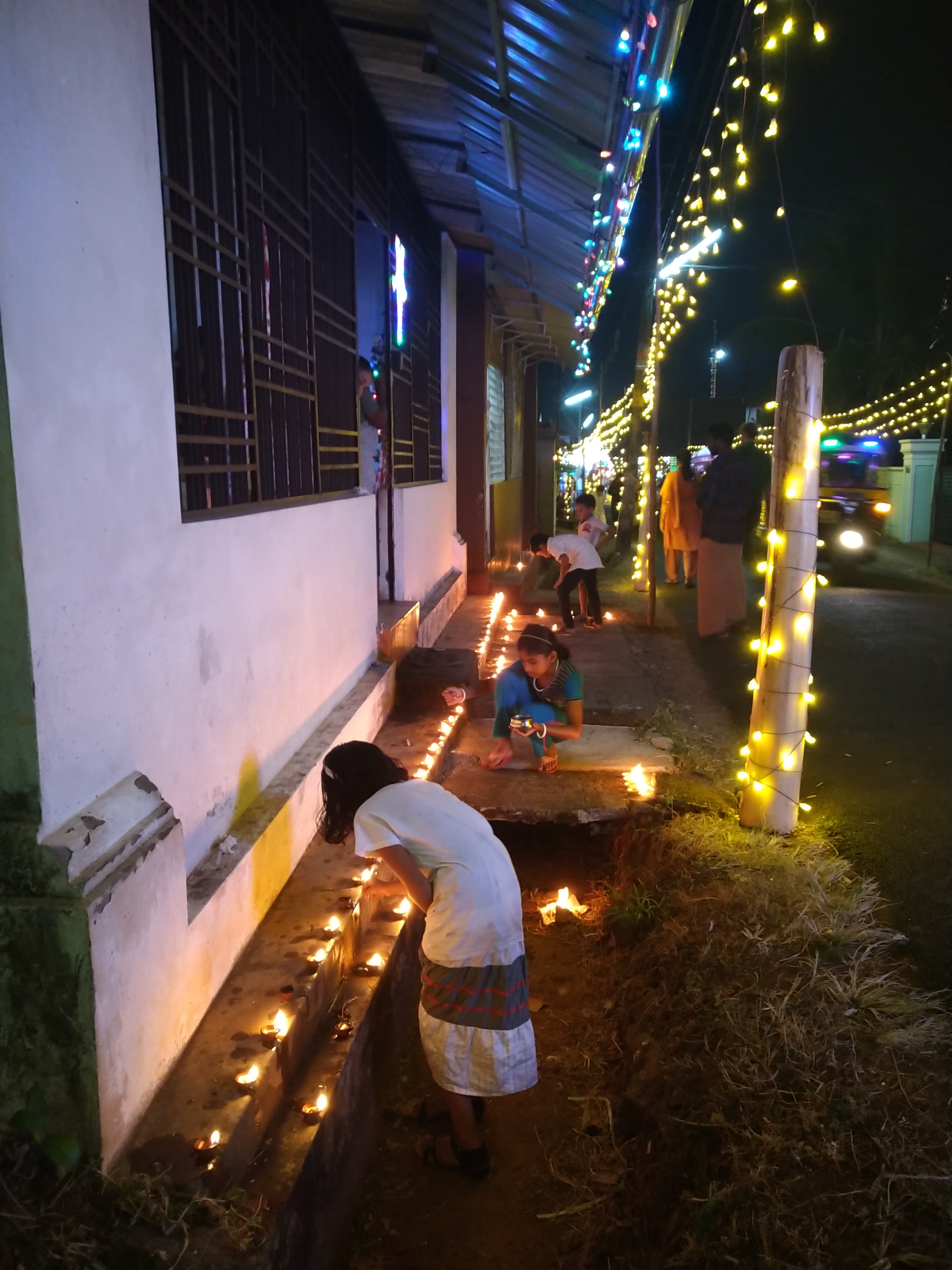 Pindi Perunnal 2019 In Kunnamkulam